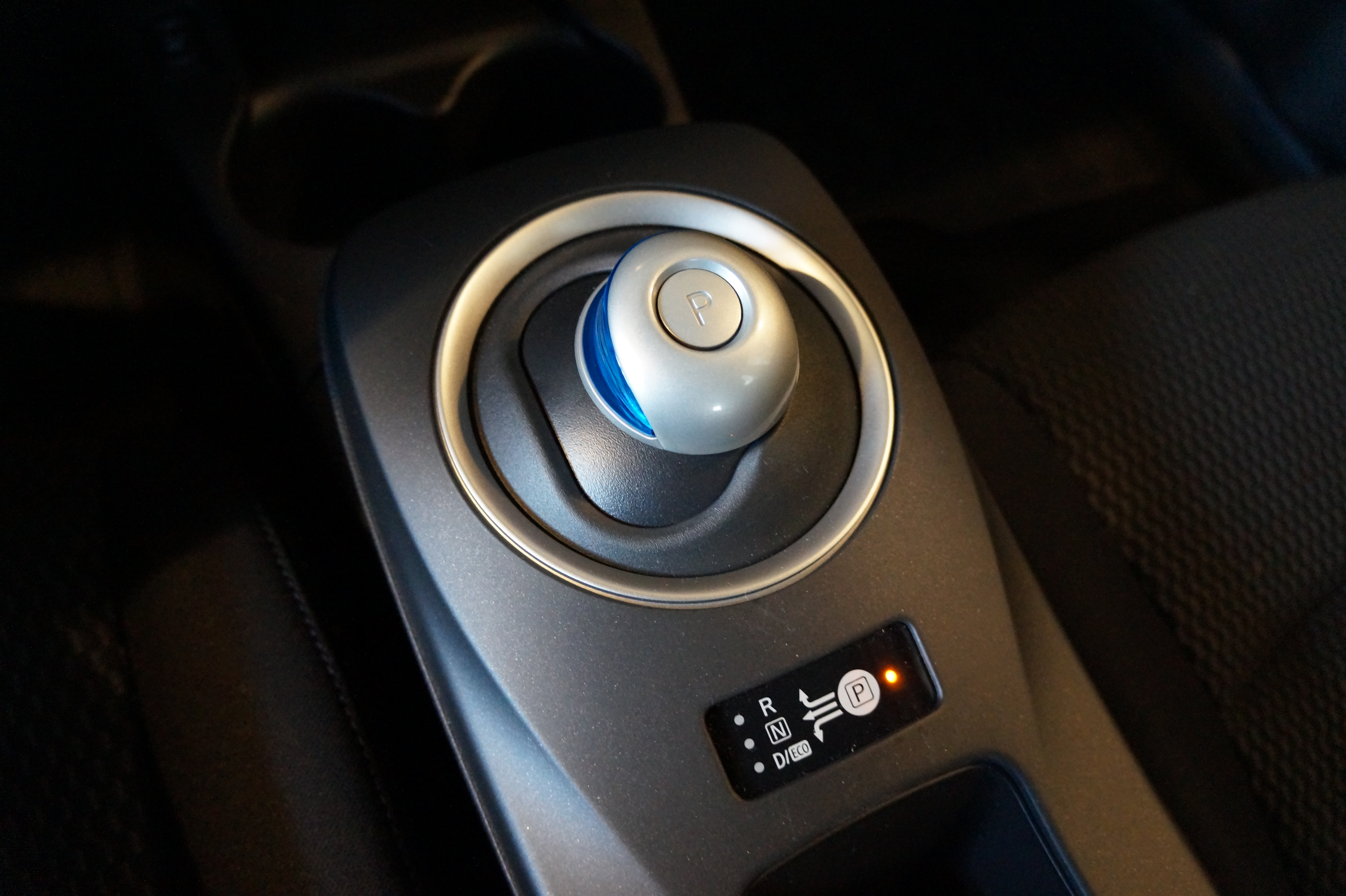 Shifter / gear selector on a 2013 Nissan Leaf electric car, in Slovakia